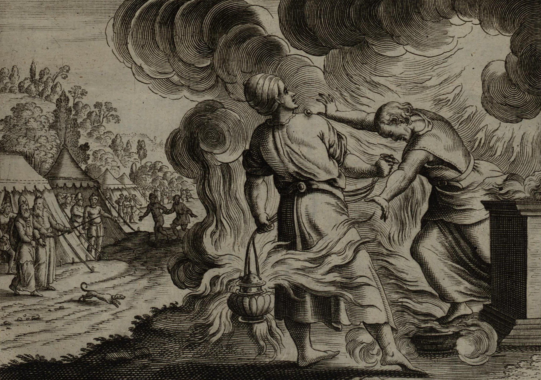 The Death of Nadab and Abihu, engraving by Gerard Jollain published 1670 in "La Saincte Bible, Contenant le Vieil and la Nouveau Testament, Enrichie de plusieurs belles figures/Sacra Biblia, nouo et vetere testamento constantia eximiis que sculpturis et imaginibus illustrata, De Limprimerie de Gerard Jollain"